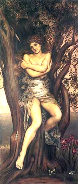 The Dryadlabel QS:Len,"The Dryad" label QS:Lfr,"La Dryade"